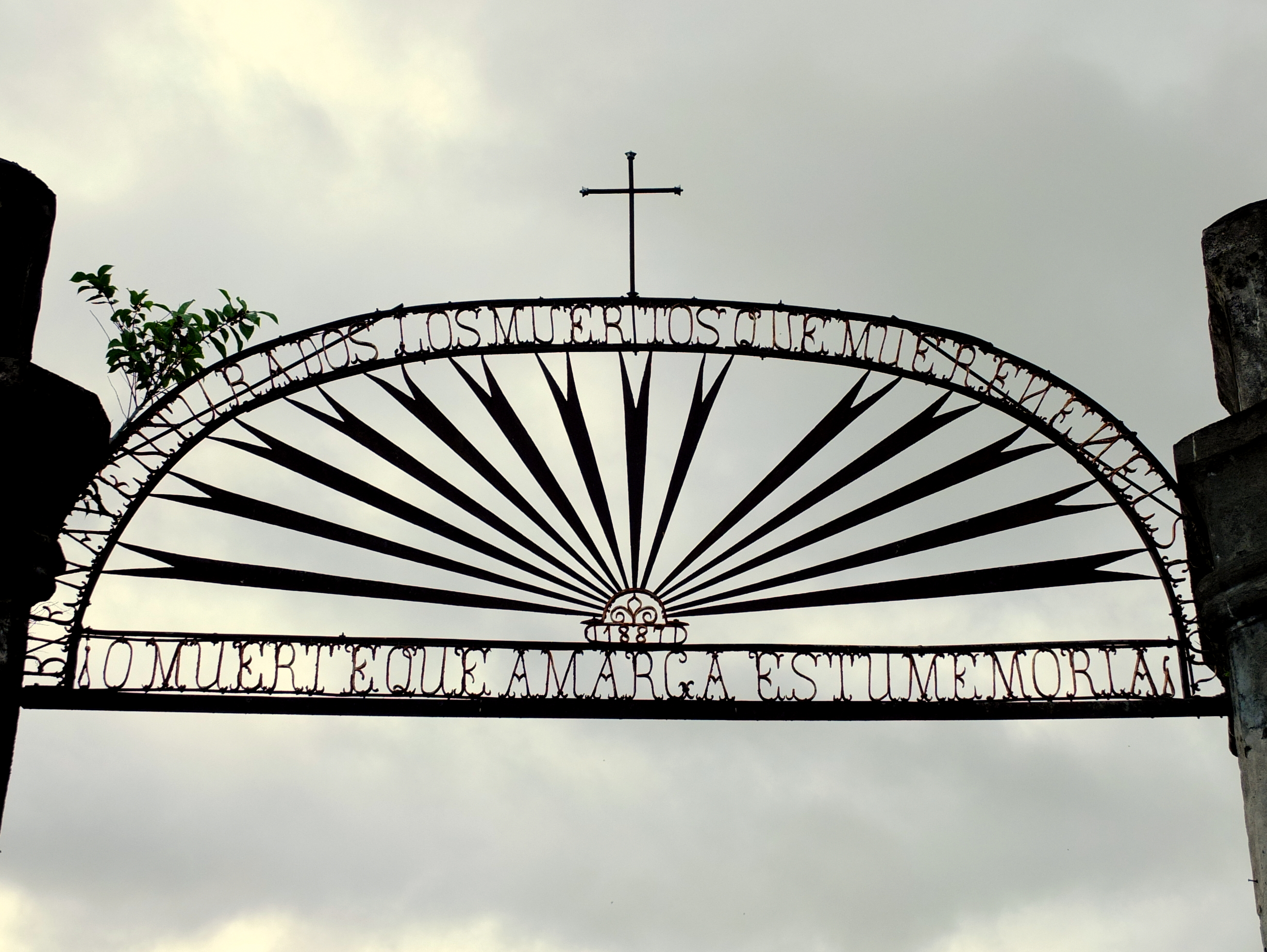 Entrance to Tayabas Cemetery dated 1887